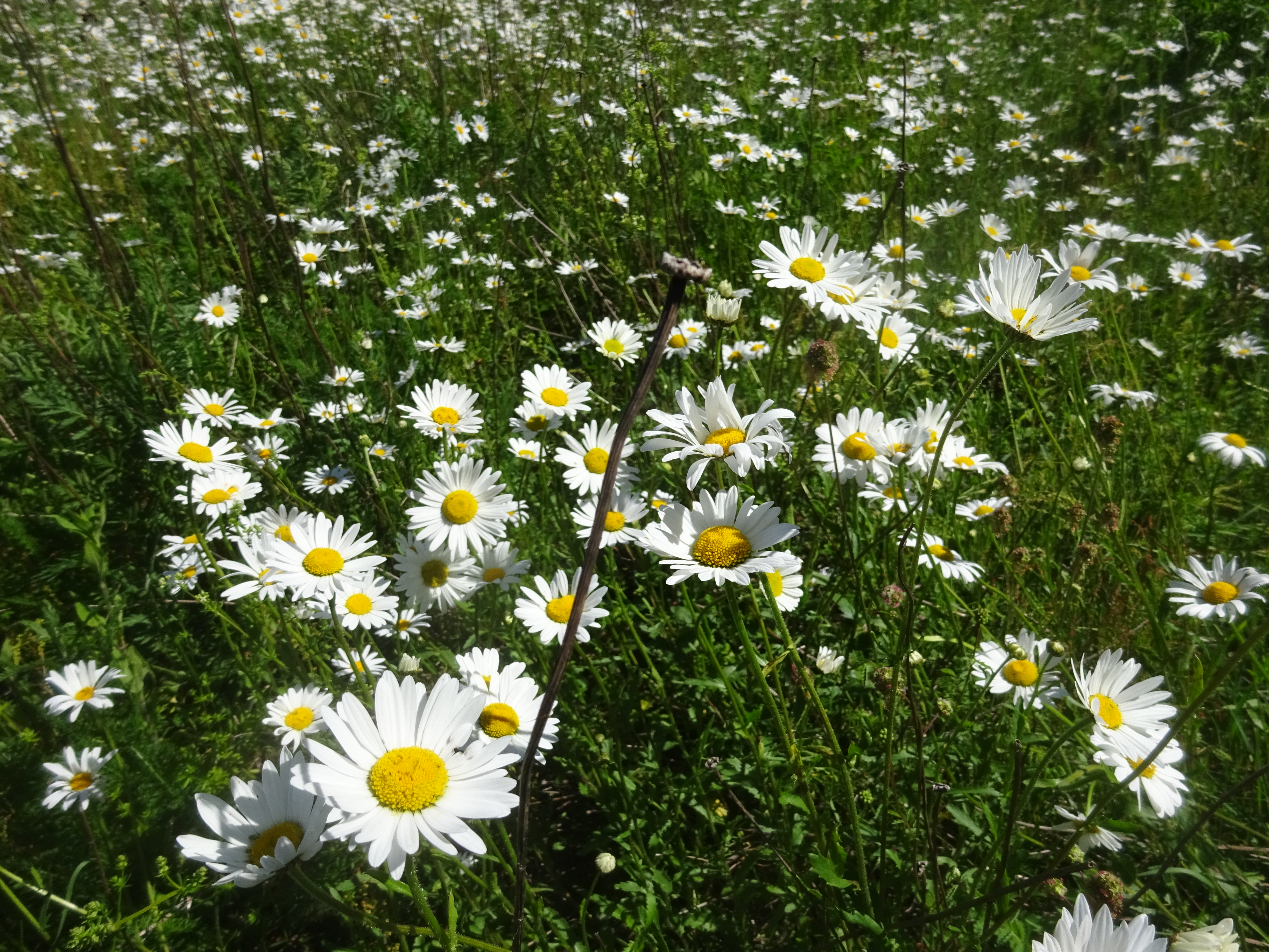 Daisies on a meadow in Eschenhahn, Hesse, Germany